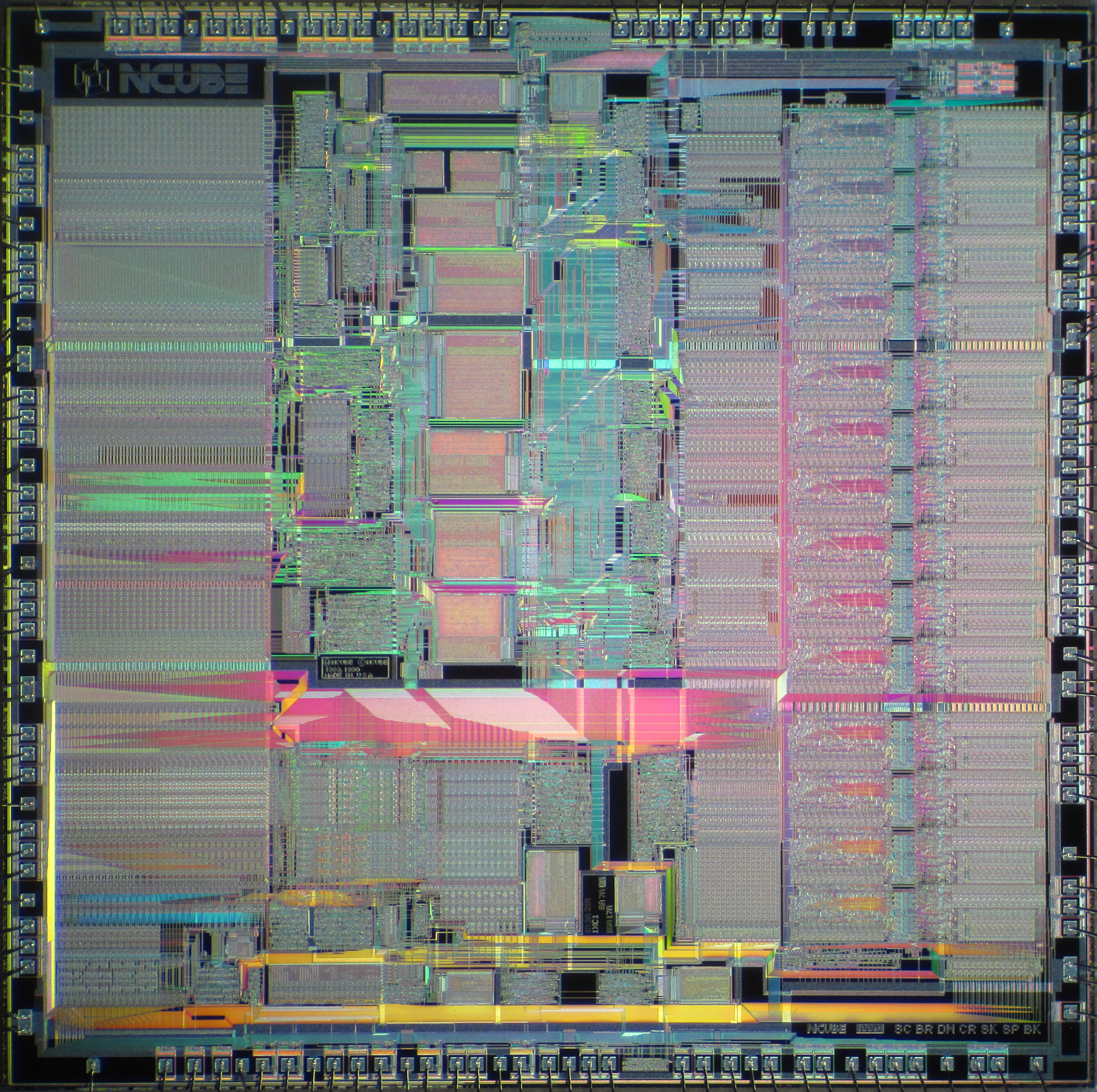 Die shot of nCUBE-2 microprocessor (1XC1-1001).